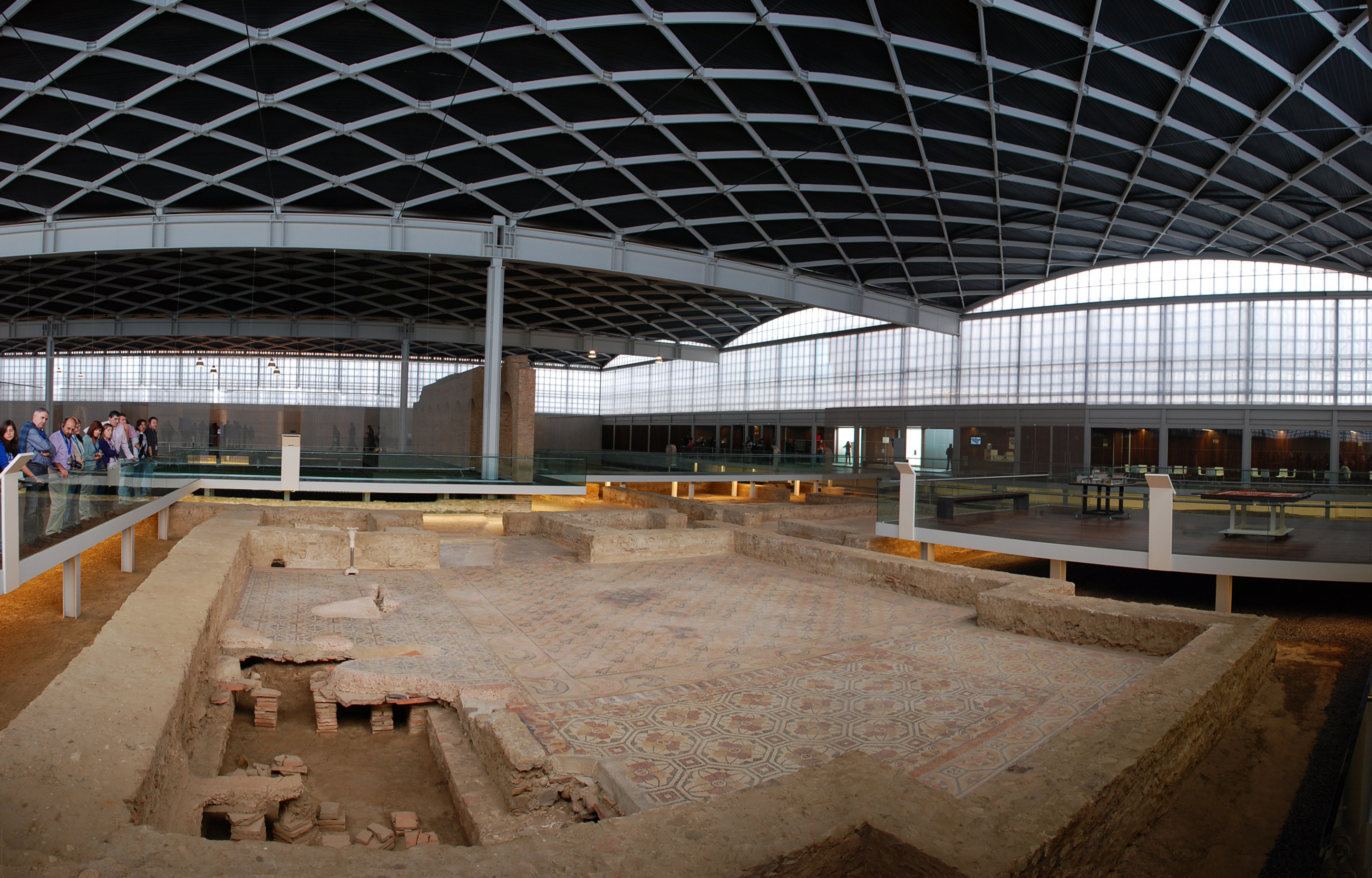 Roman Villa of La Olmeda in Pedrosa de la Vega (Palencia, Castile and León).